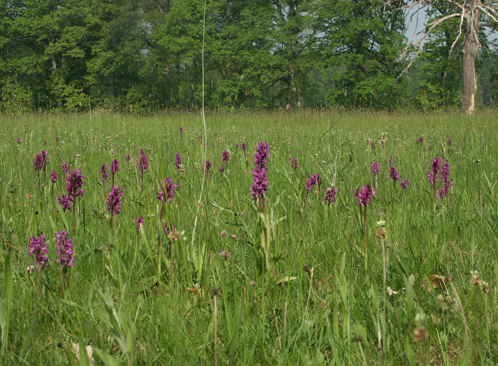 Dactylorhiza majalis, Hohenloher Ebene, Germany